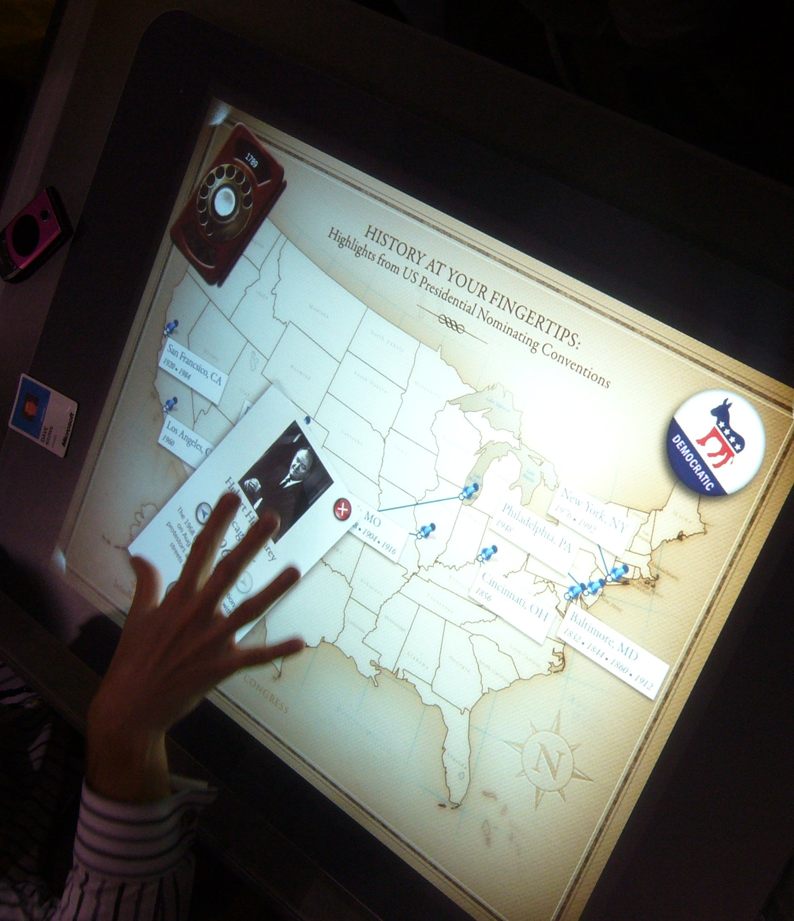 Microsoft Surface showing the history of USA presidential elections